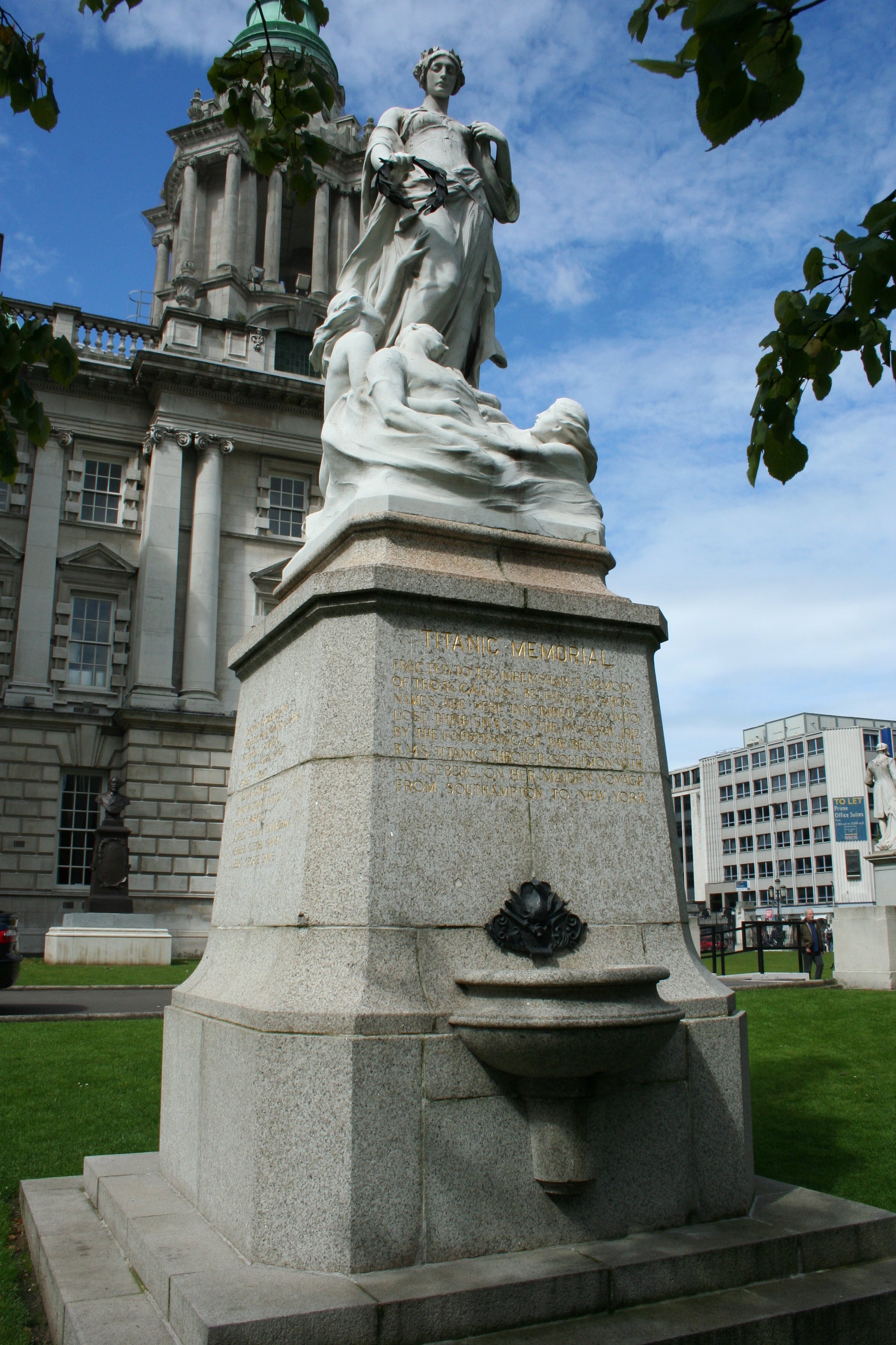 Image of the Titanic Memorial, grounds of City Hall, Belfast Credit: A Peter Clarke image Category:Monuments and memorials in Northern Ireland Category:RMS Titanic Category:Images of Northern Ireland